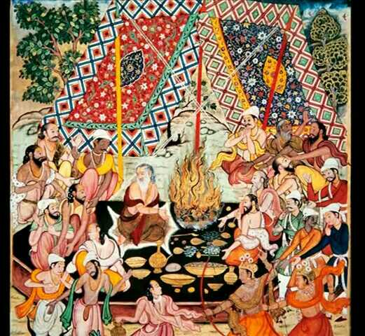 Ramayana of mughal